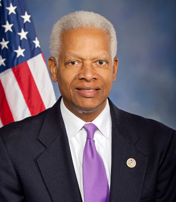 Hank Johnson's official photo